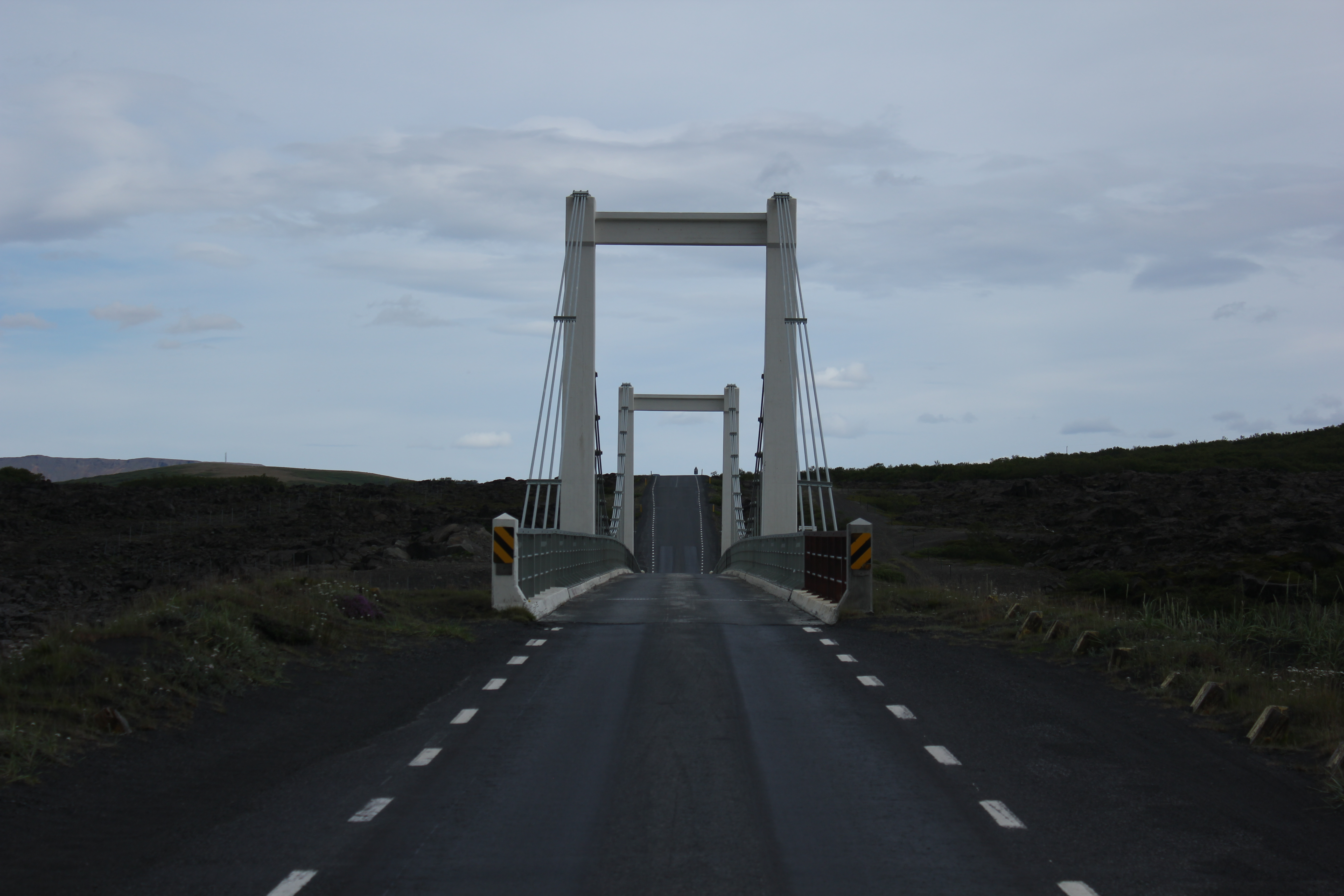 No, that bridge is not lifted - the road goes up that steep. Drive with less than 60 over the bridge and you don't get up at the other end. Kinda like Minigolf - just with a Suzuki Swift.